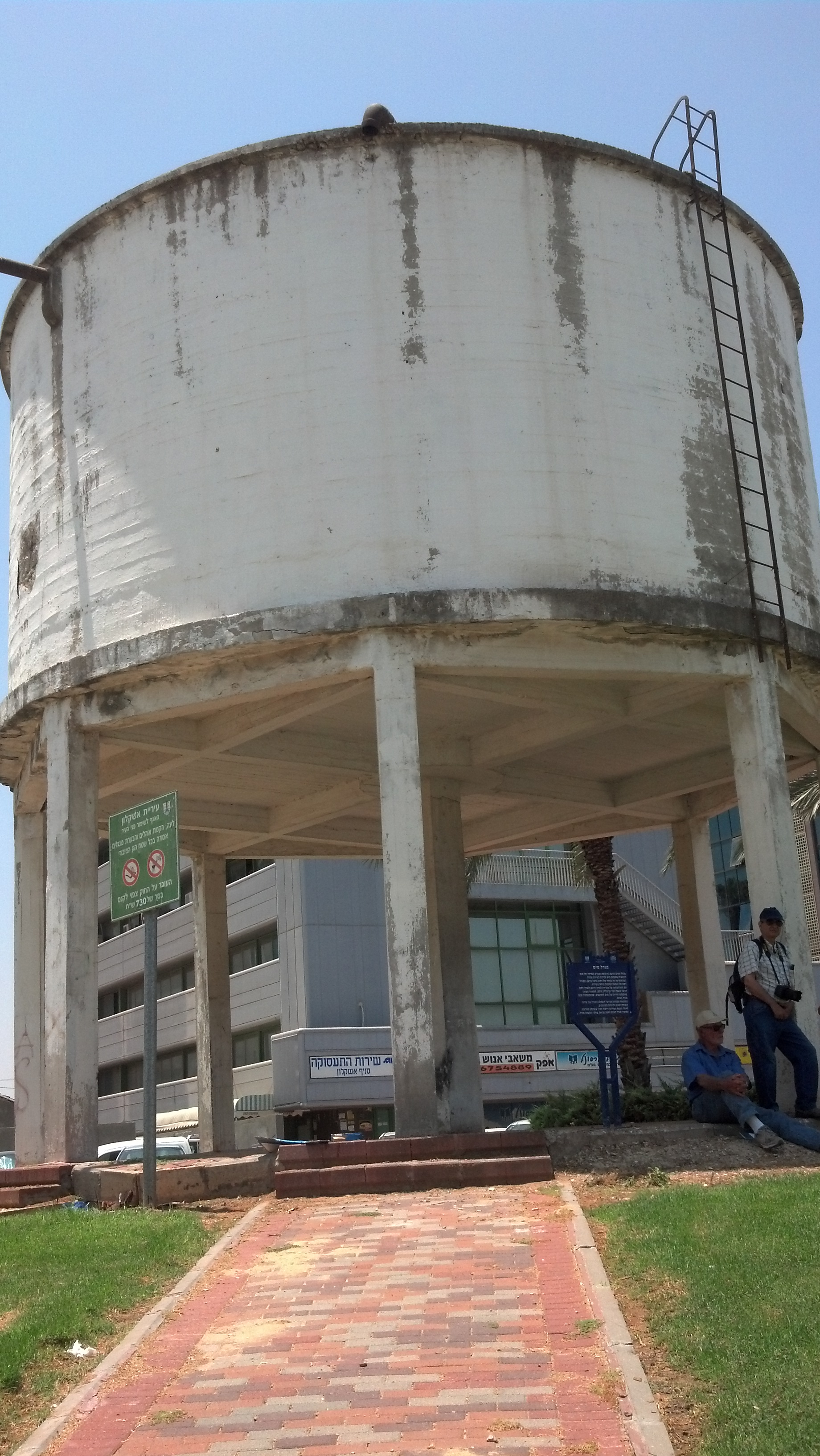 Ashkelon water tower